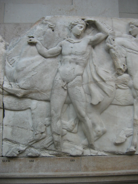 Elgin Marbles, British Museum, London : Frise Ouest